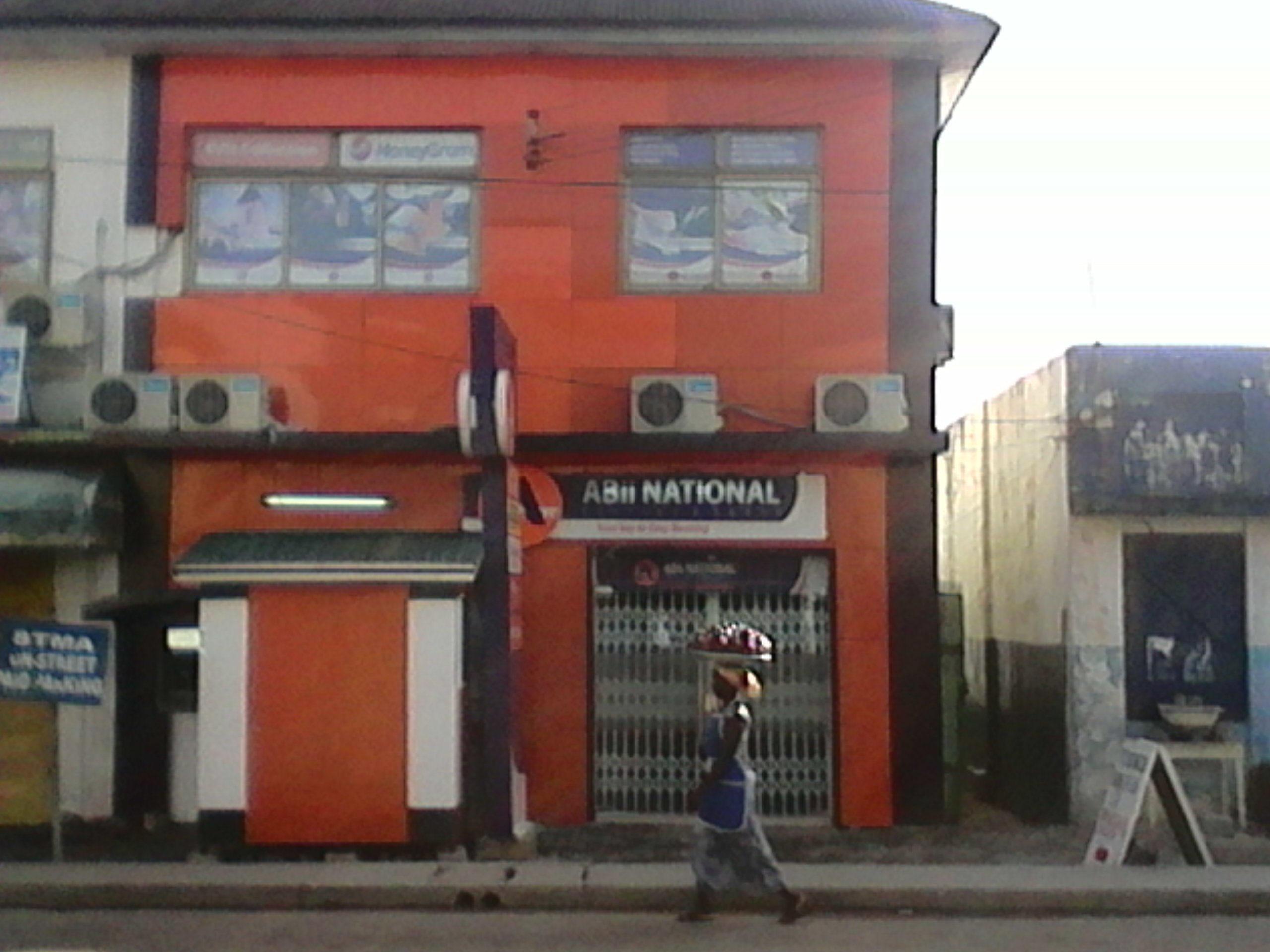 Financial Institution in Ghana